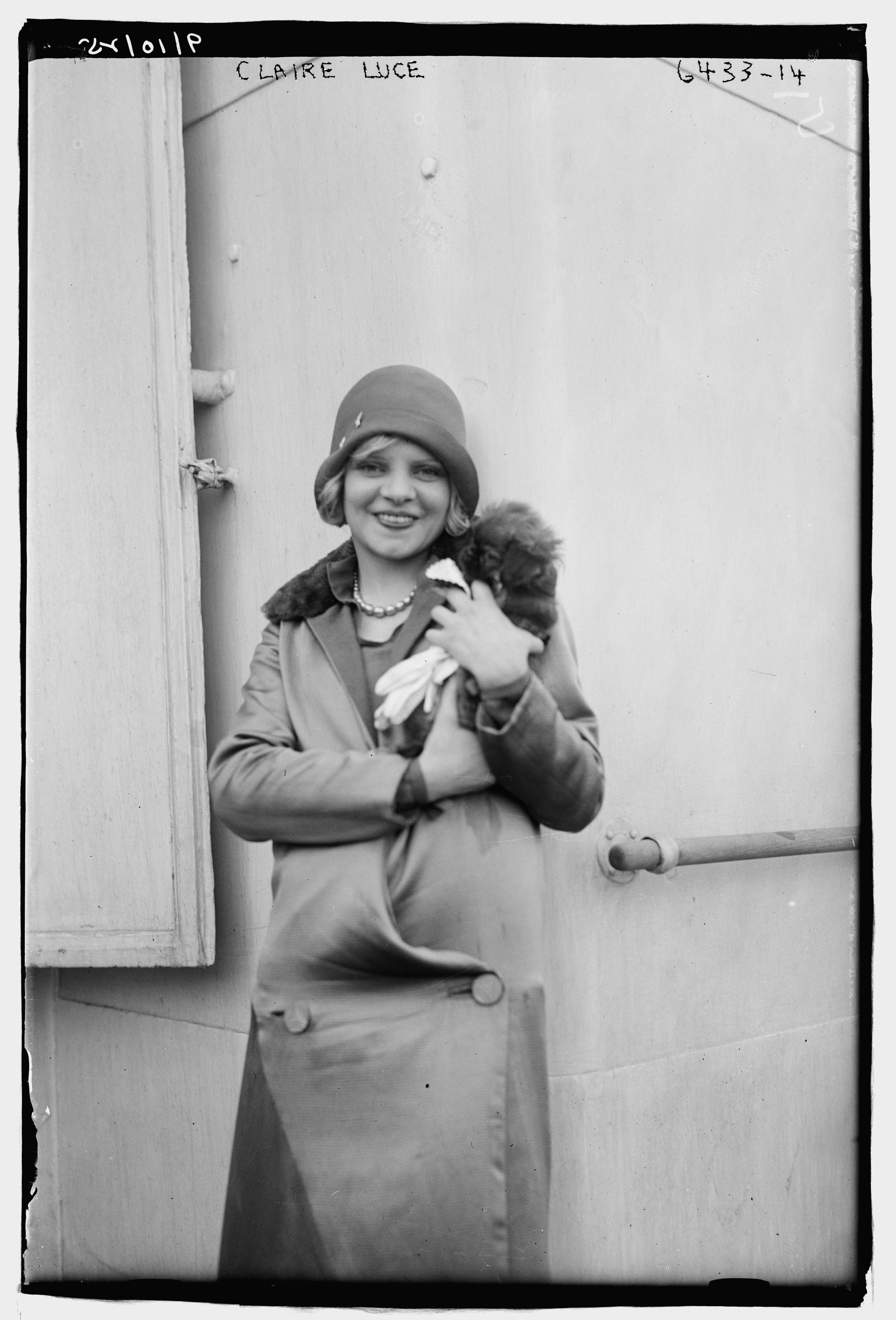 american stage and film actress Claire Luce (1903-1989)